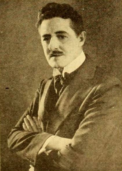 Actor Marc McDermott, on page 93 of the January 4, 1919 Moving Picture World.